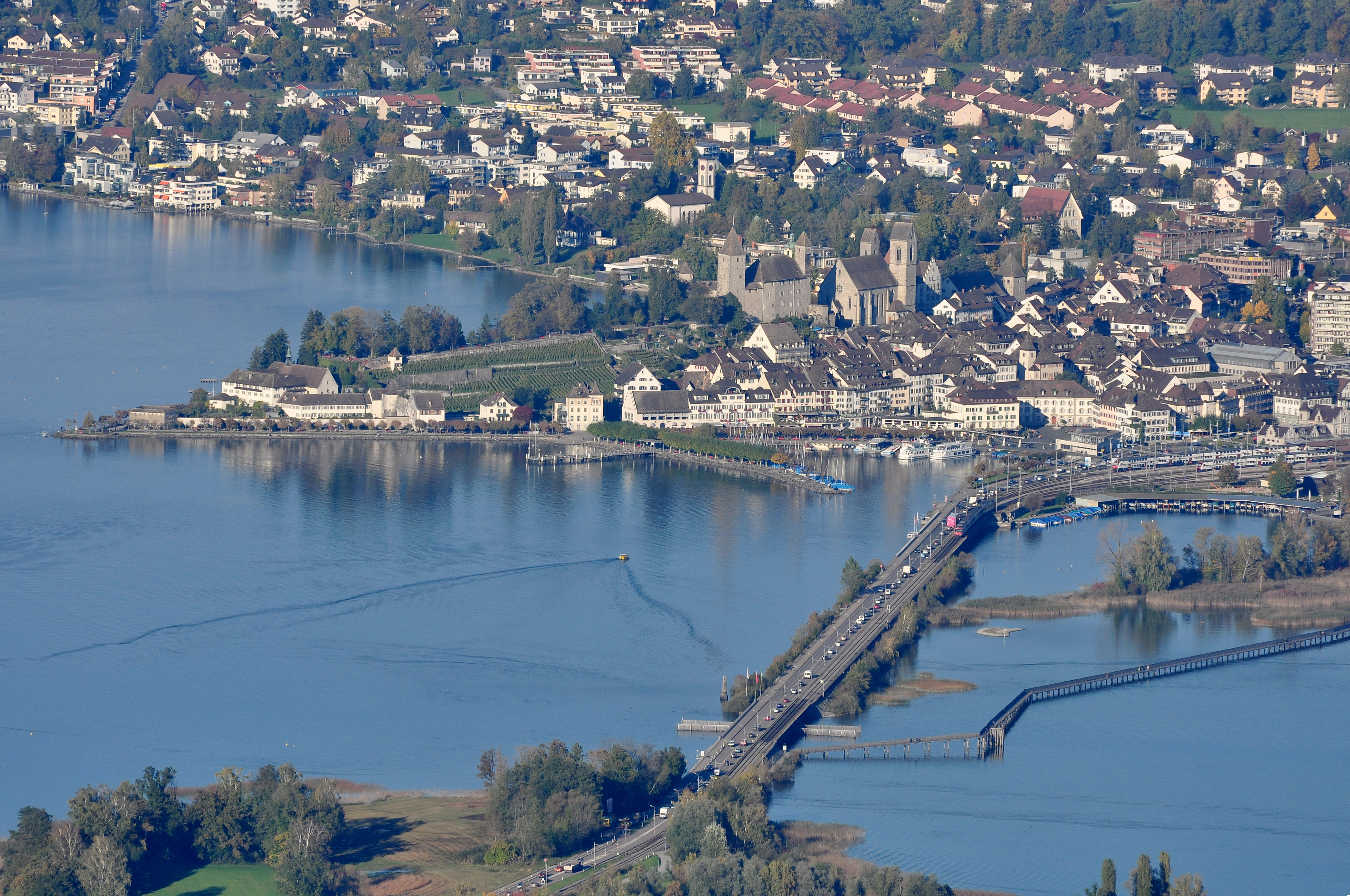 View from Etzel Kulm in Switzerland, focus on Rapperswil – Kempraten to the left, Jona to the right : Seedamm and Holzbrücke, Zürichsee to the left, Obersee to the right, Hurden in the foreground.